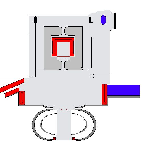 Versailles as it was built under Louis XIII